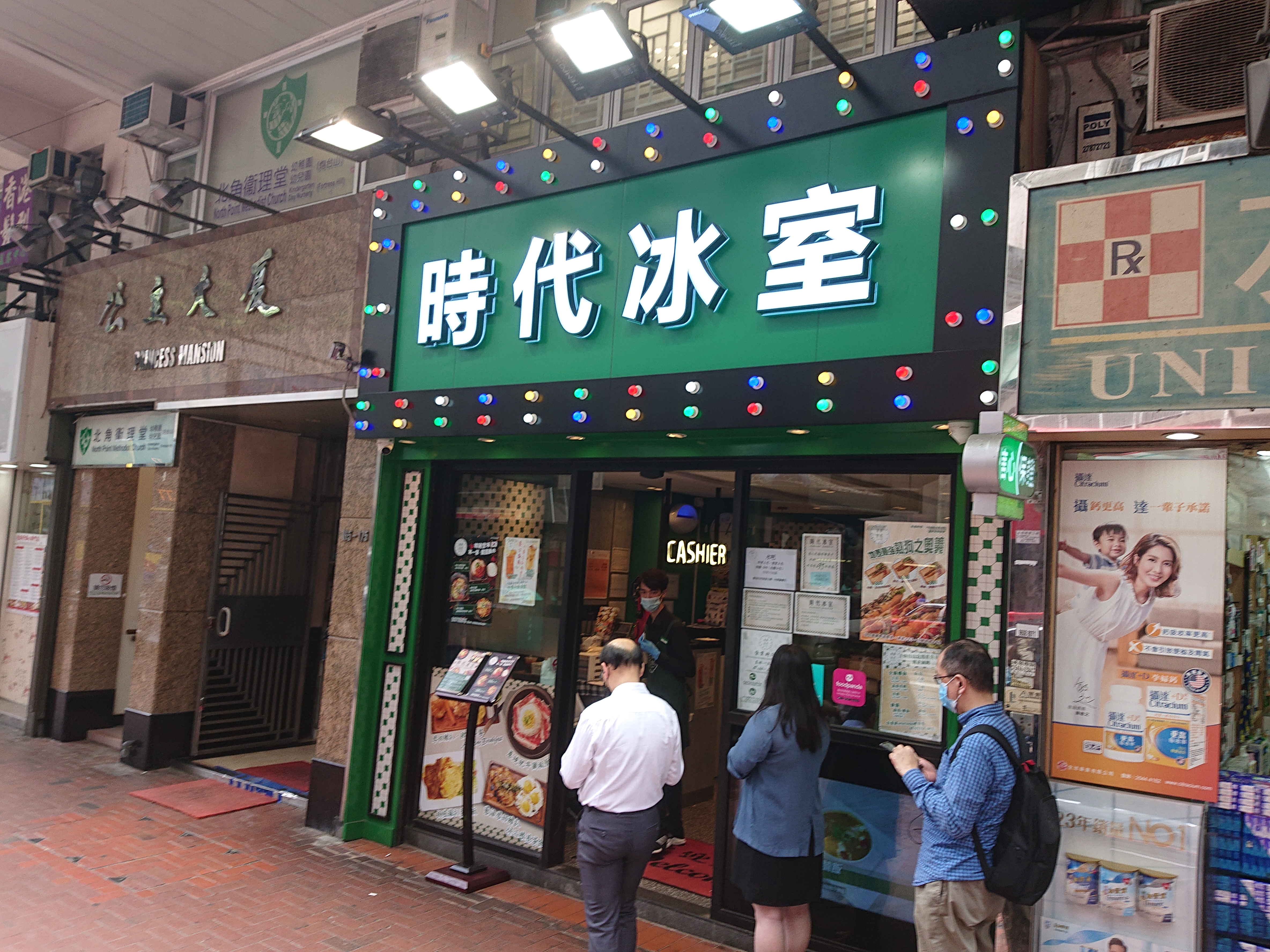 Times Cafe in Fortress Hill